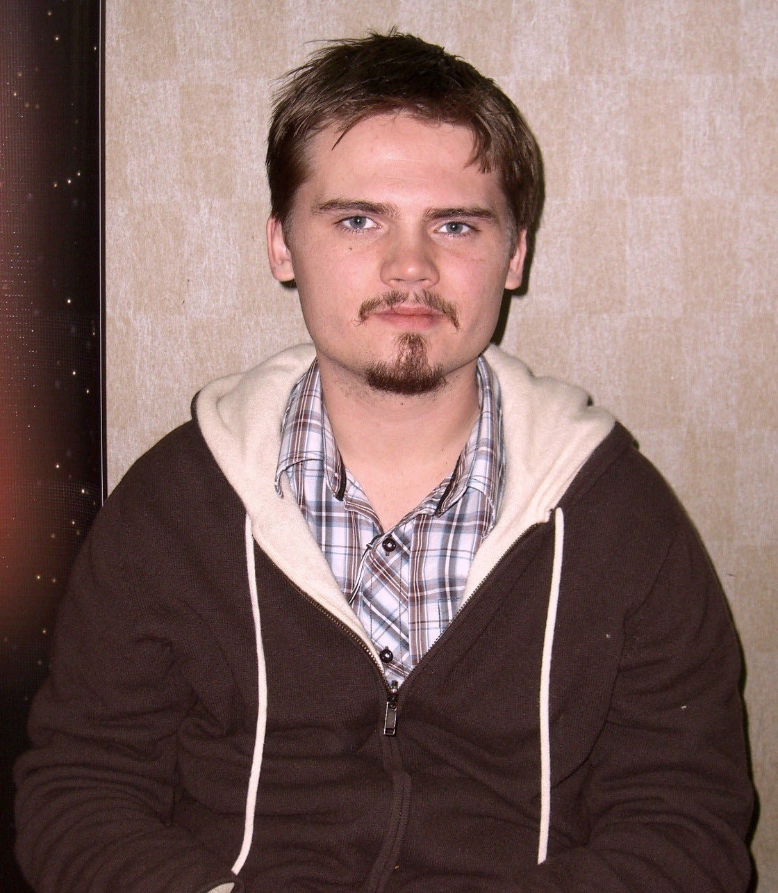 Actor Jake Lloyd at the Big Apple Convention in Manhattan, October 2, 2010. This photo was created by Luigi Novi. It is not in the public domain, and use of this file outside of the licensing terms is a copyright violation.